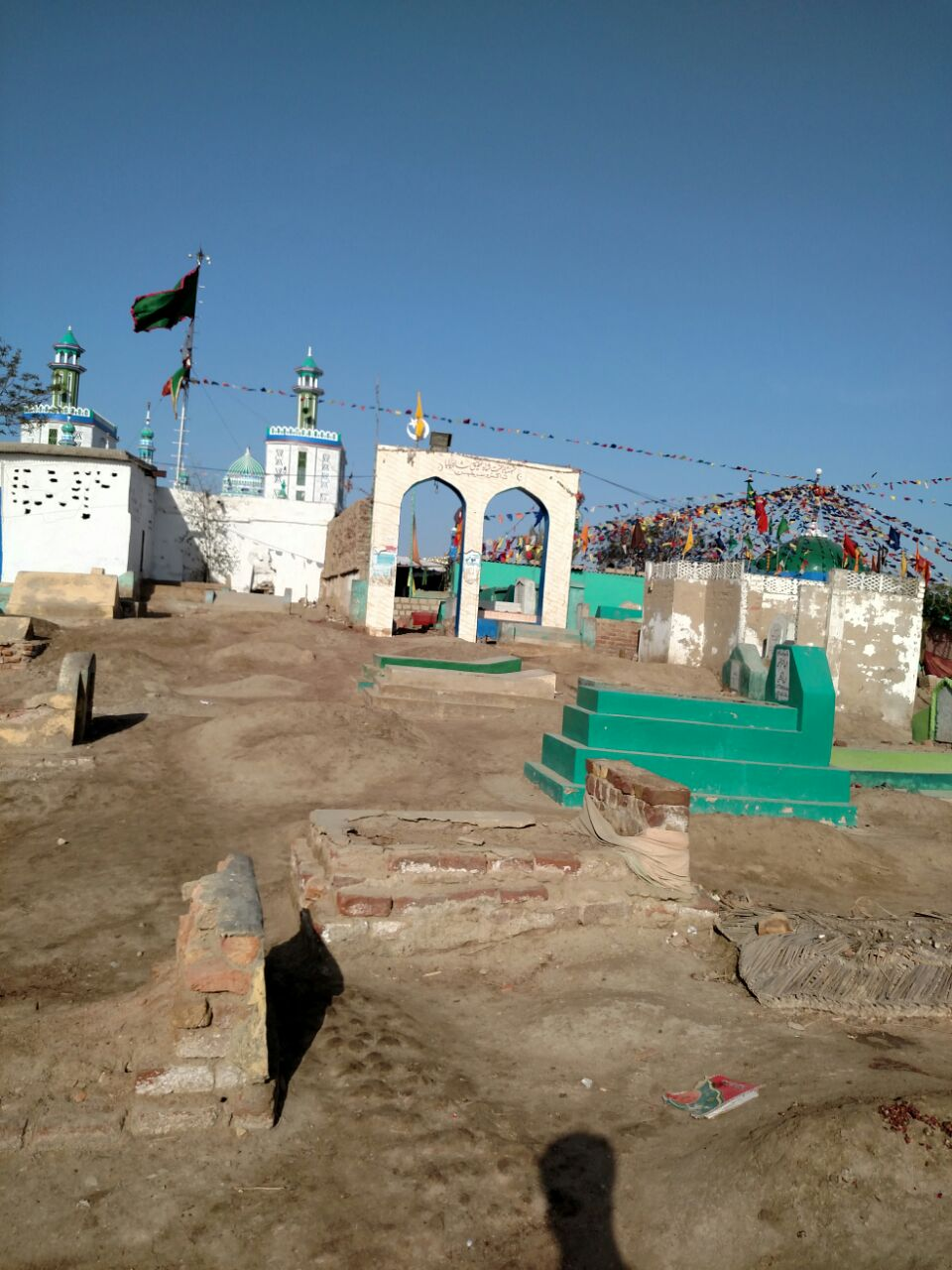 Shah aqeeq baba